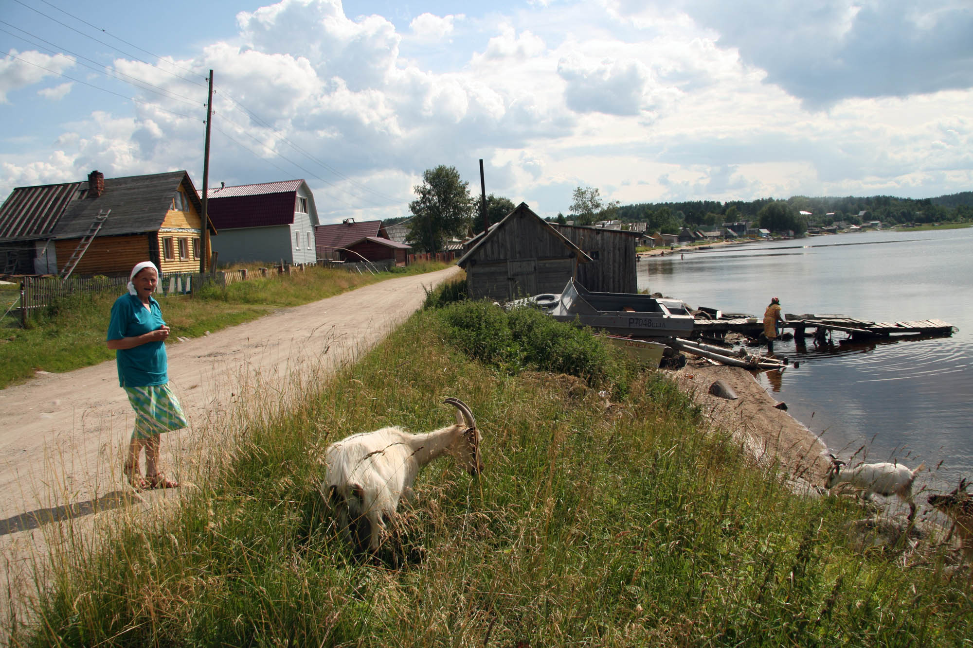 Säämäjärvi village in Karelia